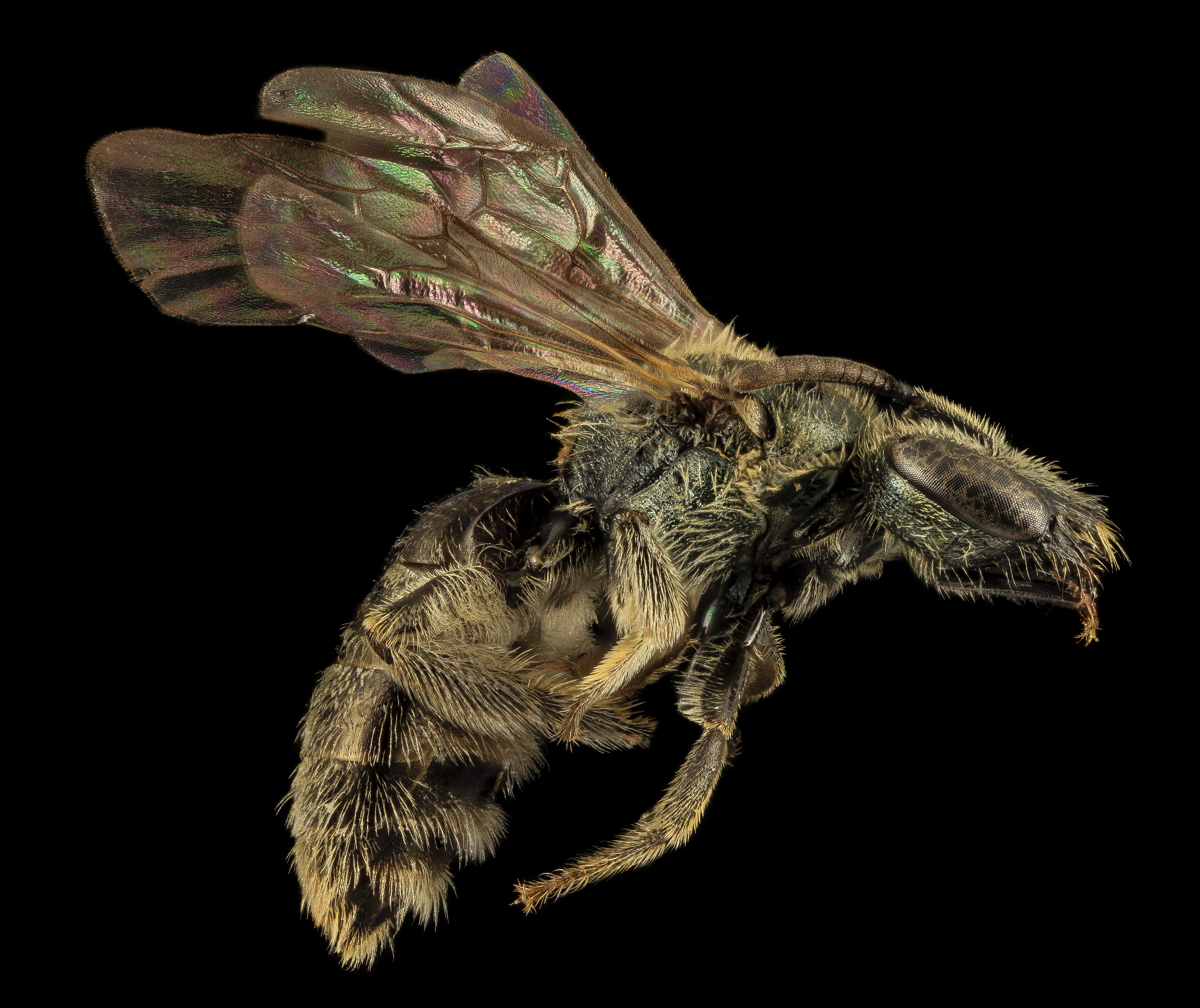 Denny Johnson from Eau Claire County in Wisconsin provided this specimen. Another Lasioglossum and one that was until recently cleared up by Jason Gibbs involved in thousands of misidentifications...many by myself. Photography by Brooke Alexander Canon Mark II 5D, Zerene Stacker, Stackshot Sled, 65mm Canon MP-E 1-5X macro lens, Twin Macro Flash in Styrofoam Cooler, F5.0, ISO 100, Shutter Speed 200, link to a .pdf of our set up is located in our profile